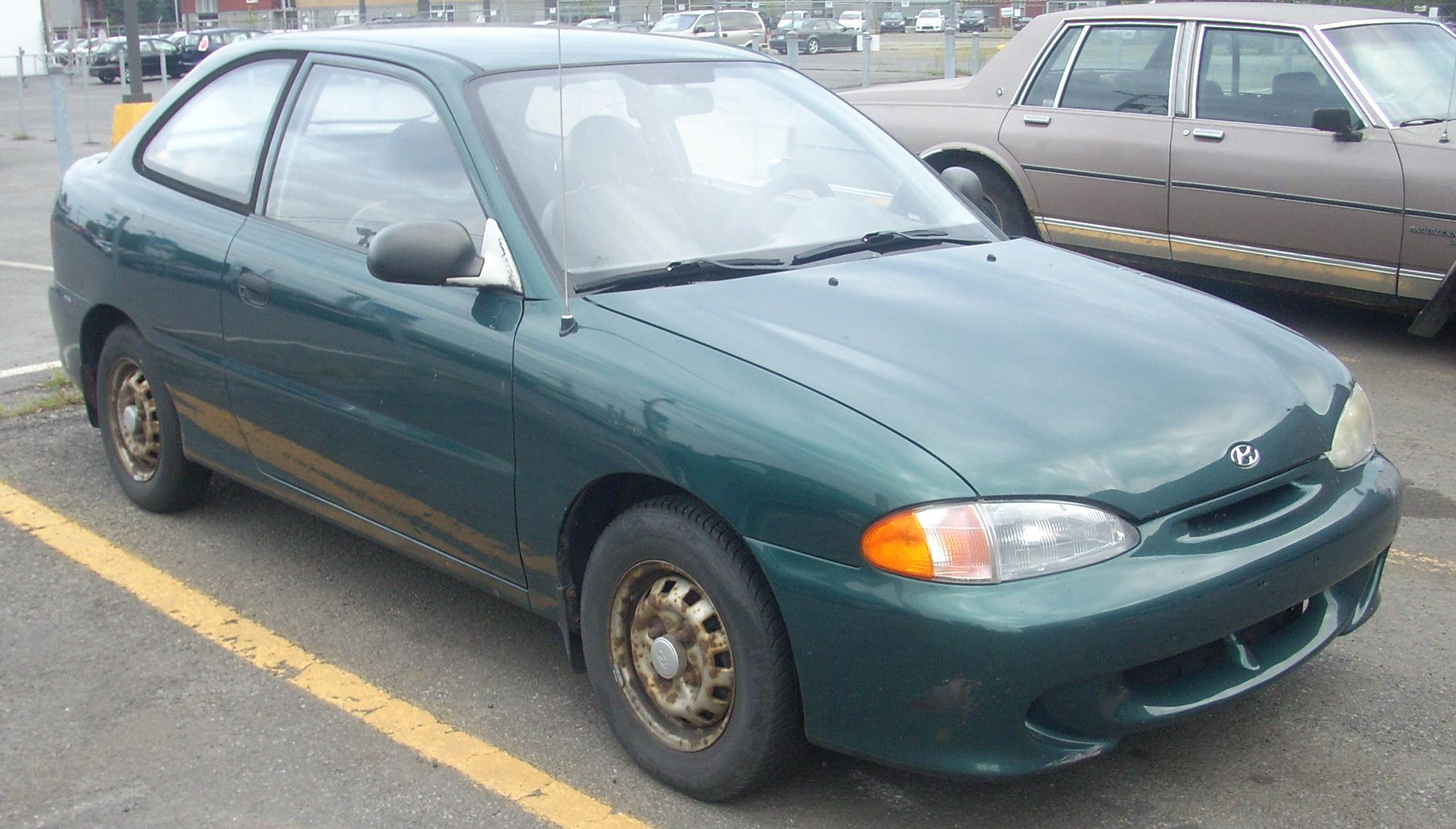 1996 Hyundai Accent photographed in Montreal, Quebec, Canada.